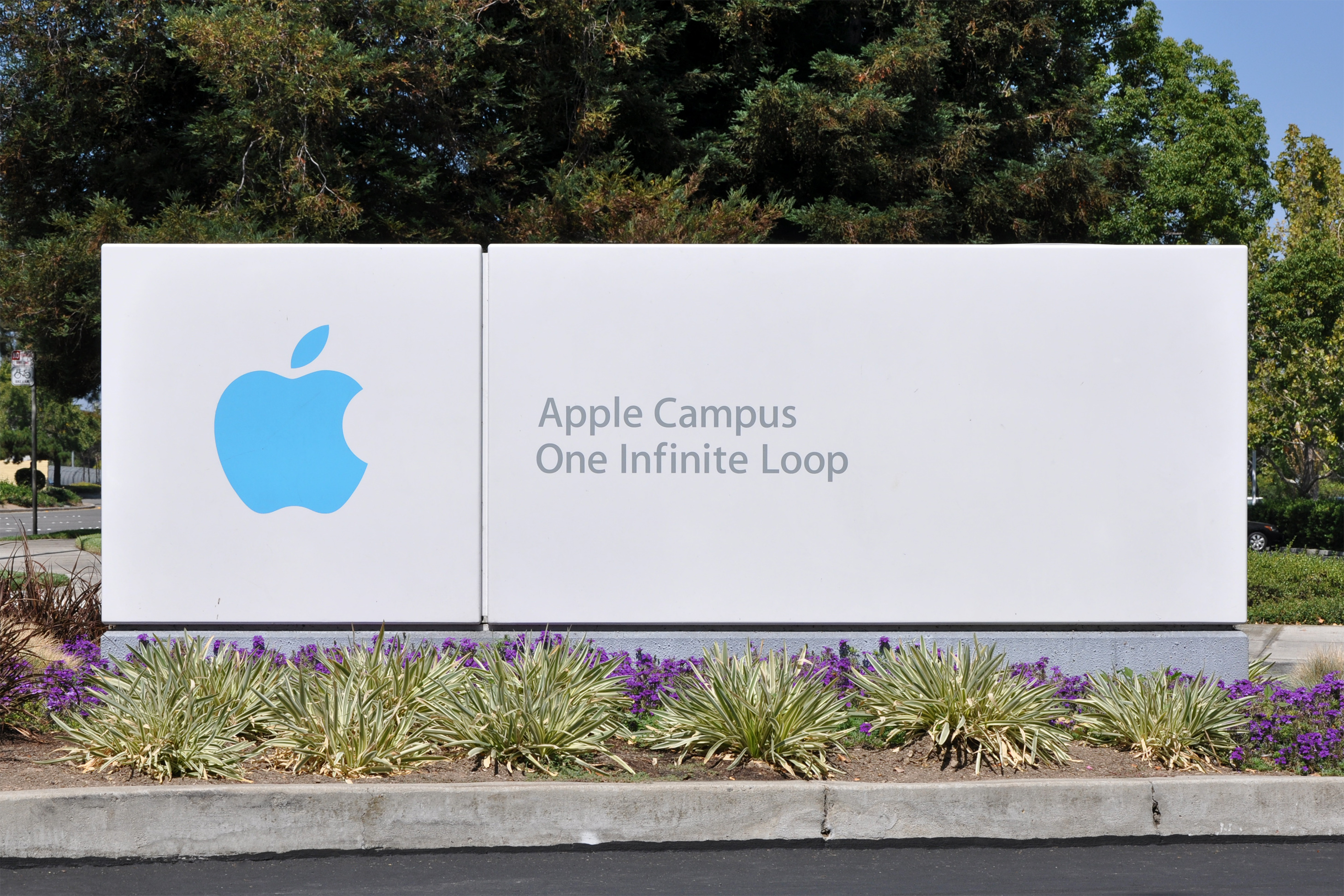 Apple Campus One Infinite Loop sign at Cupertino in California, USA.